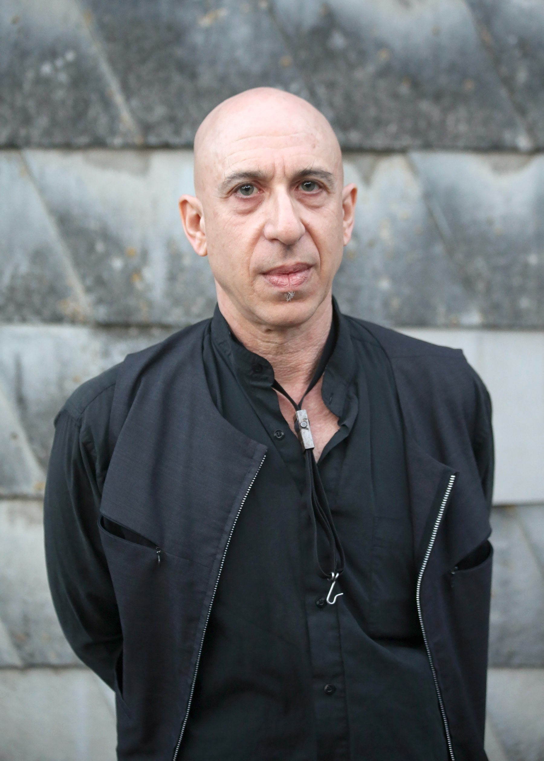 Elliott Sharp - Ulrichsberger Kaleidophon (Ulrichsberg, Upper Austria)